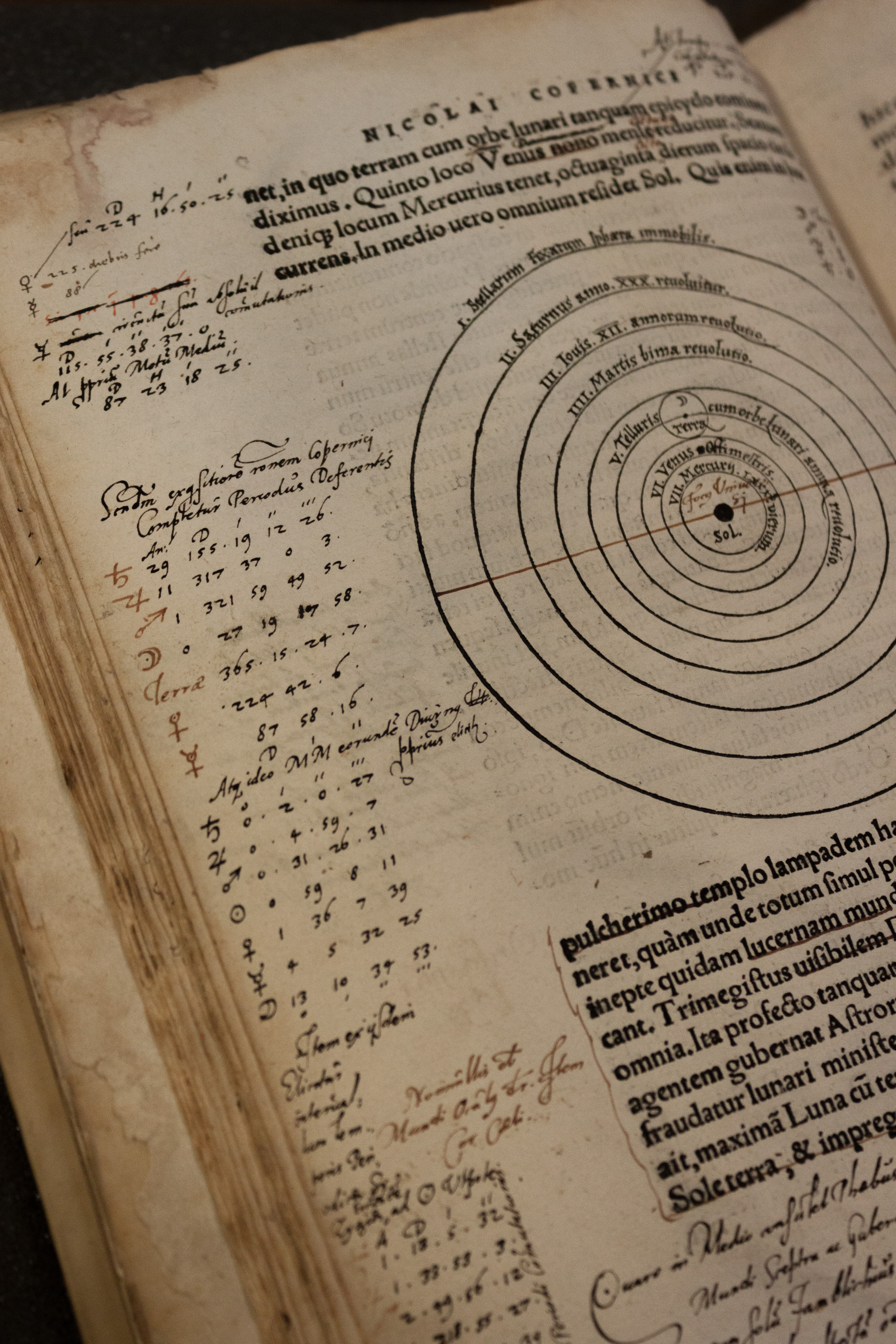 A page of Nicolai Copernici's De revolutionibus orbium coelestrium, containing notes from two mathematicians of his time : Erasme Reinhold (1511-1551), and Paul Wittich (circa 1550-1587) This is a file created at the museum: Library of Université de Liège